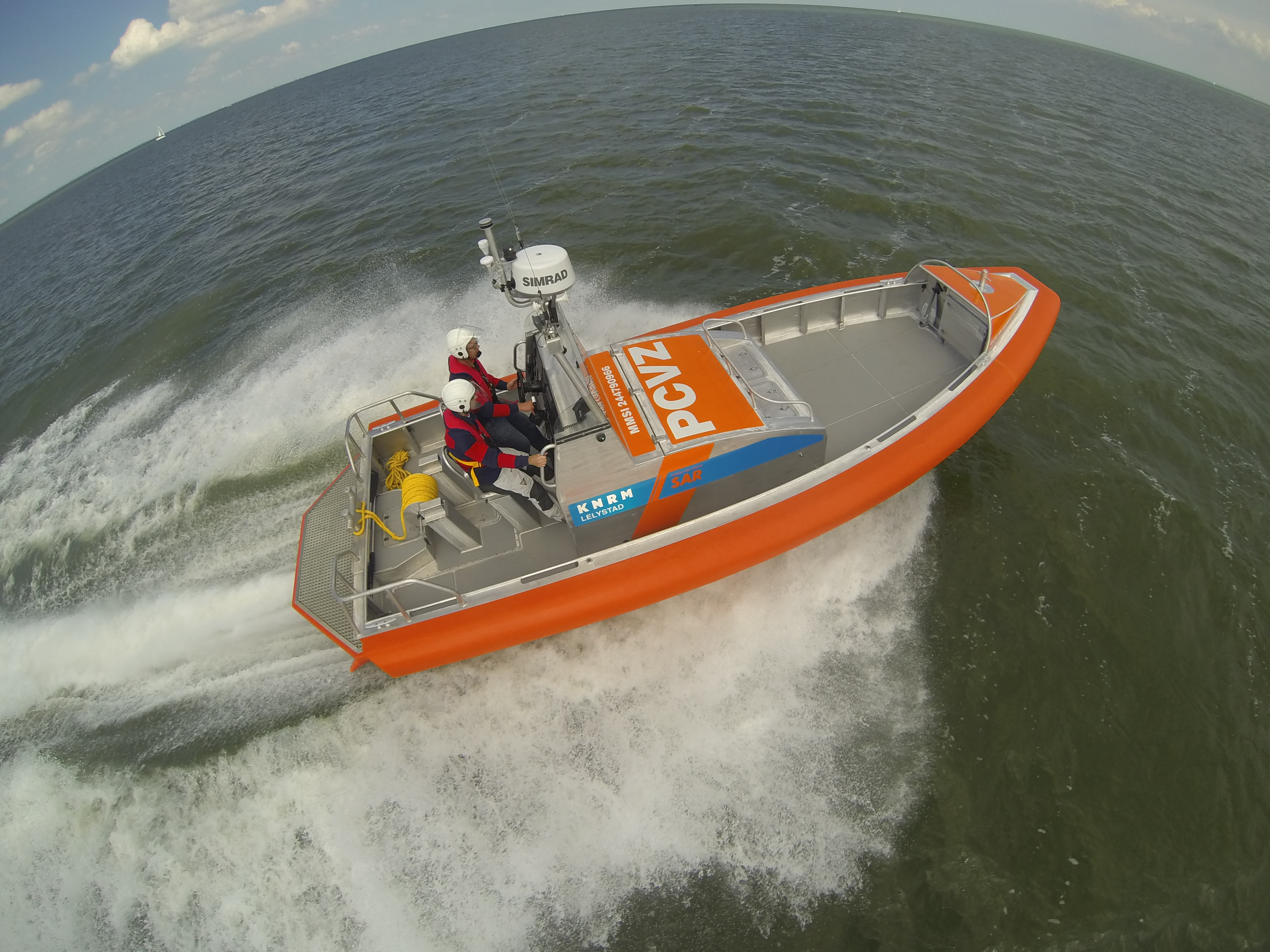 KNRM - Nikolaas II - Bert en Anneke Knape